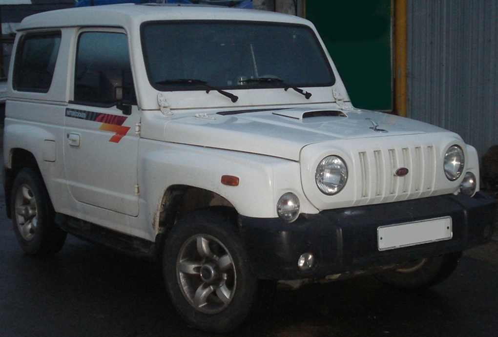 Kia Retona Cruiser